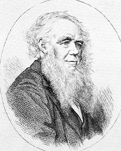 John Obadiah Westwood